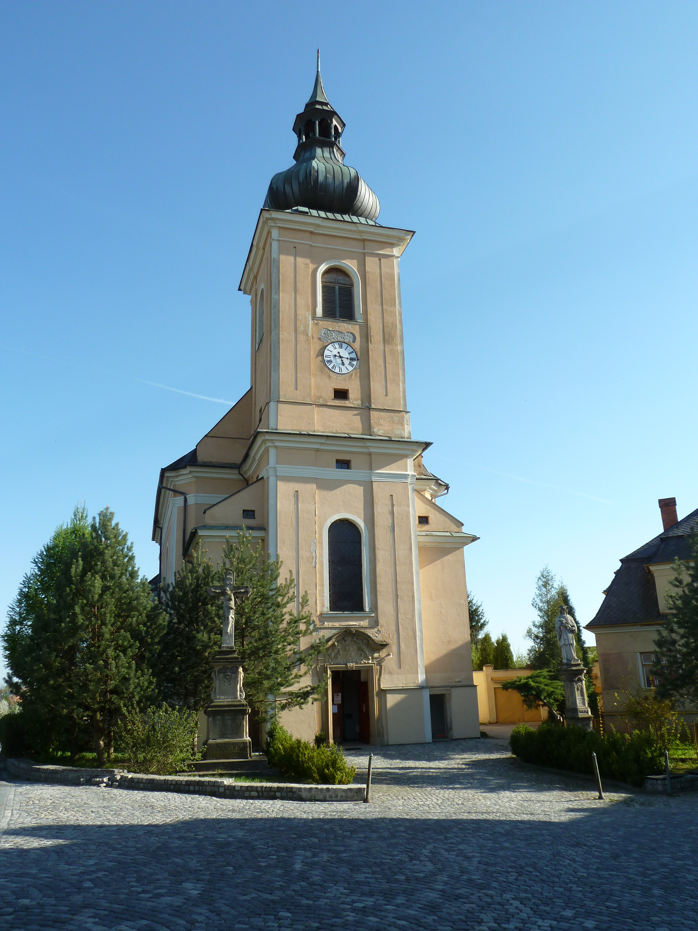 "Church of the Saint Jacob Elder" in village Velký Újezd (Olomouc district, Czech Republic)